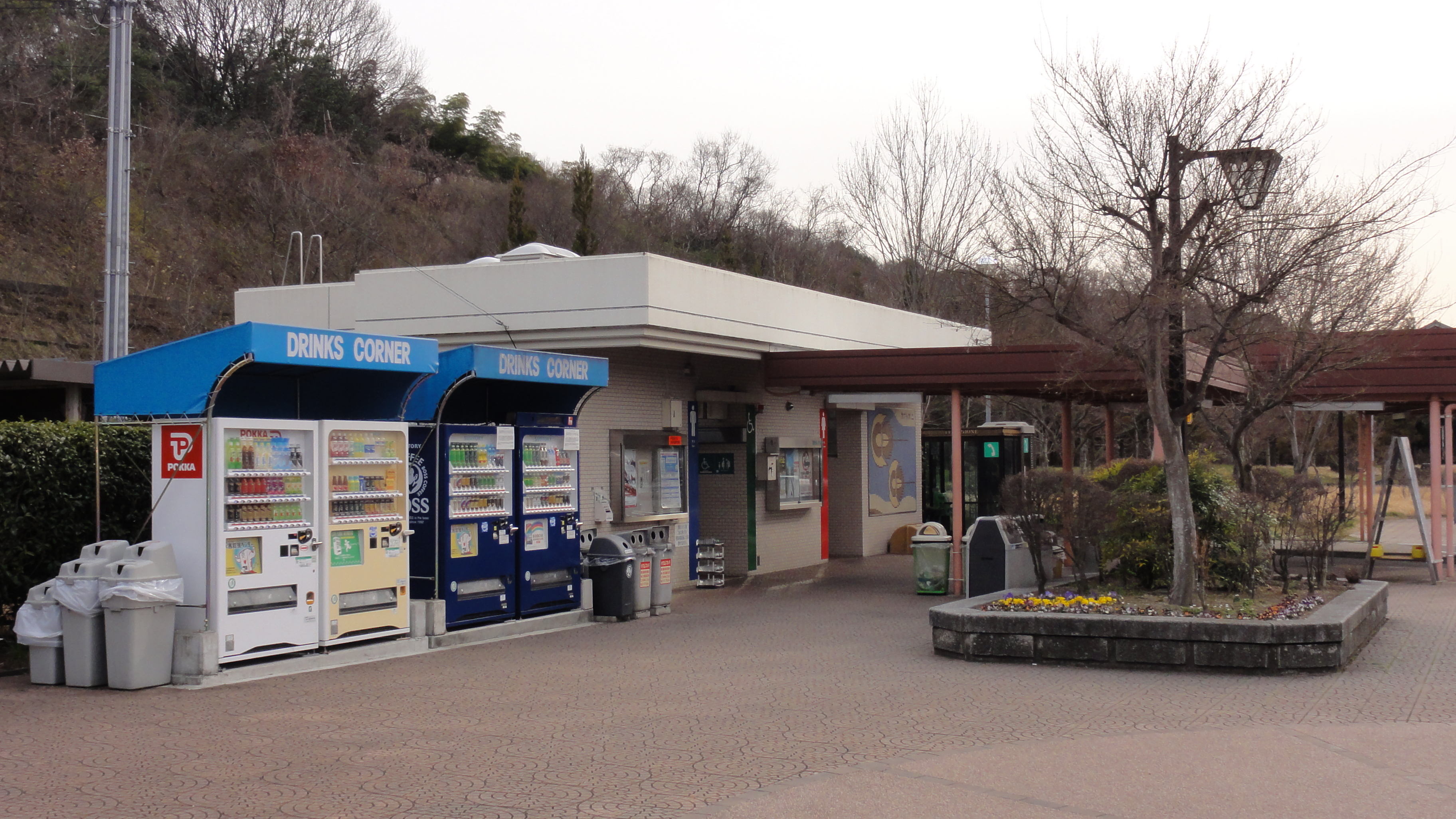 Shinosaka Parking Area,Okayama pref..,Japan